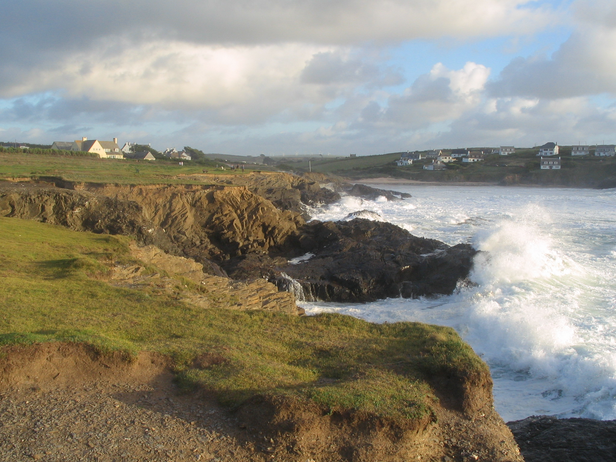 Treyarnon Bay taken by jschwa1 in September 2005